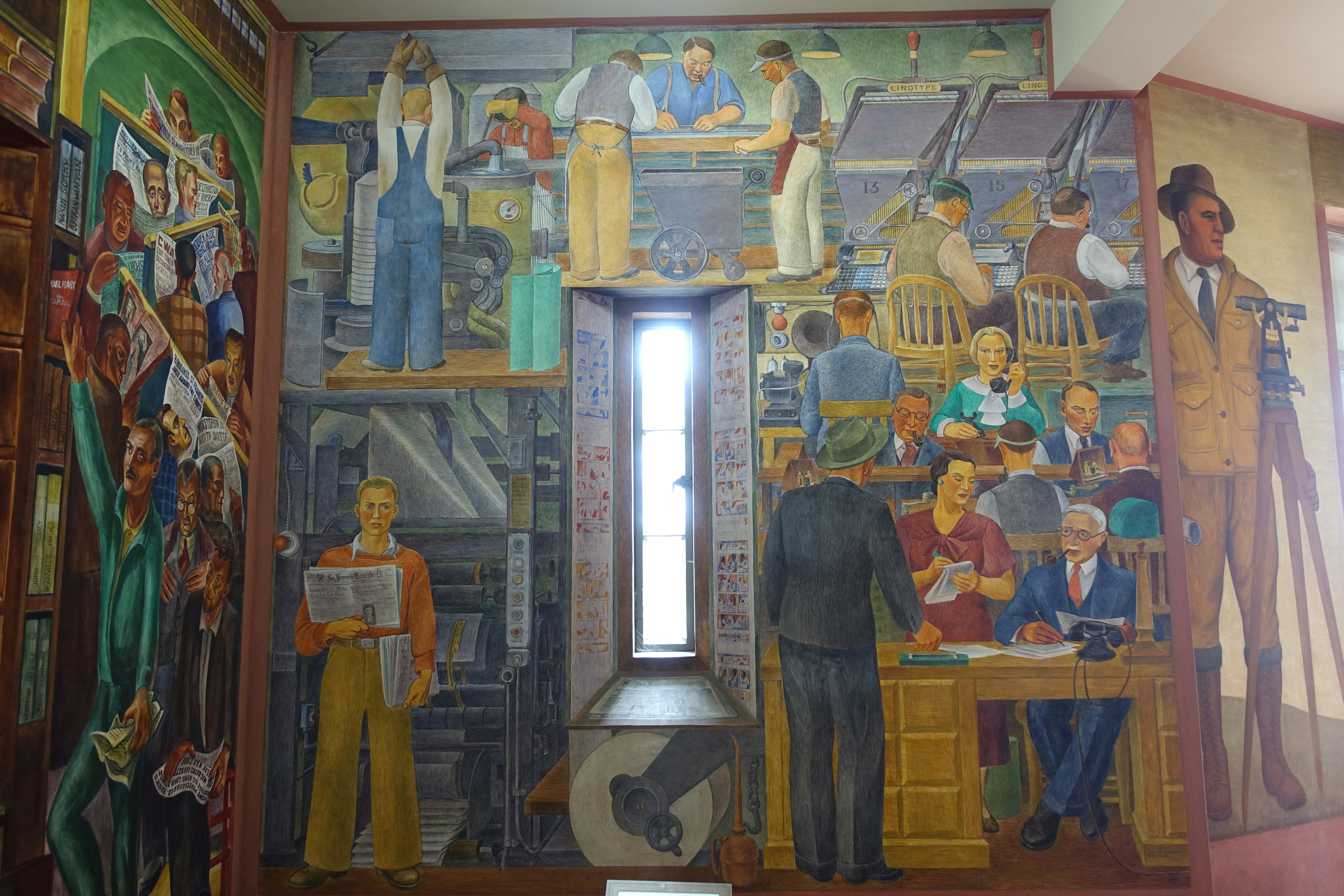 Newsgathering by Suzanne Scheuer - Coit Tower, San Francisco, California, USA. This artwork is in the public domain because it was created by an employee of the United States Works Progress Administration.